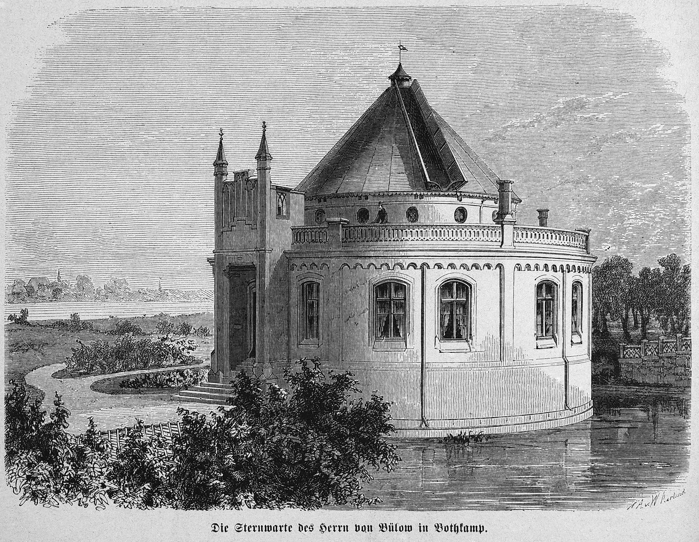 caption: "Die Sternwarte des Herrn von Bülow in Bothkamp."